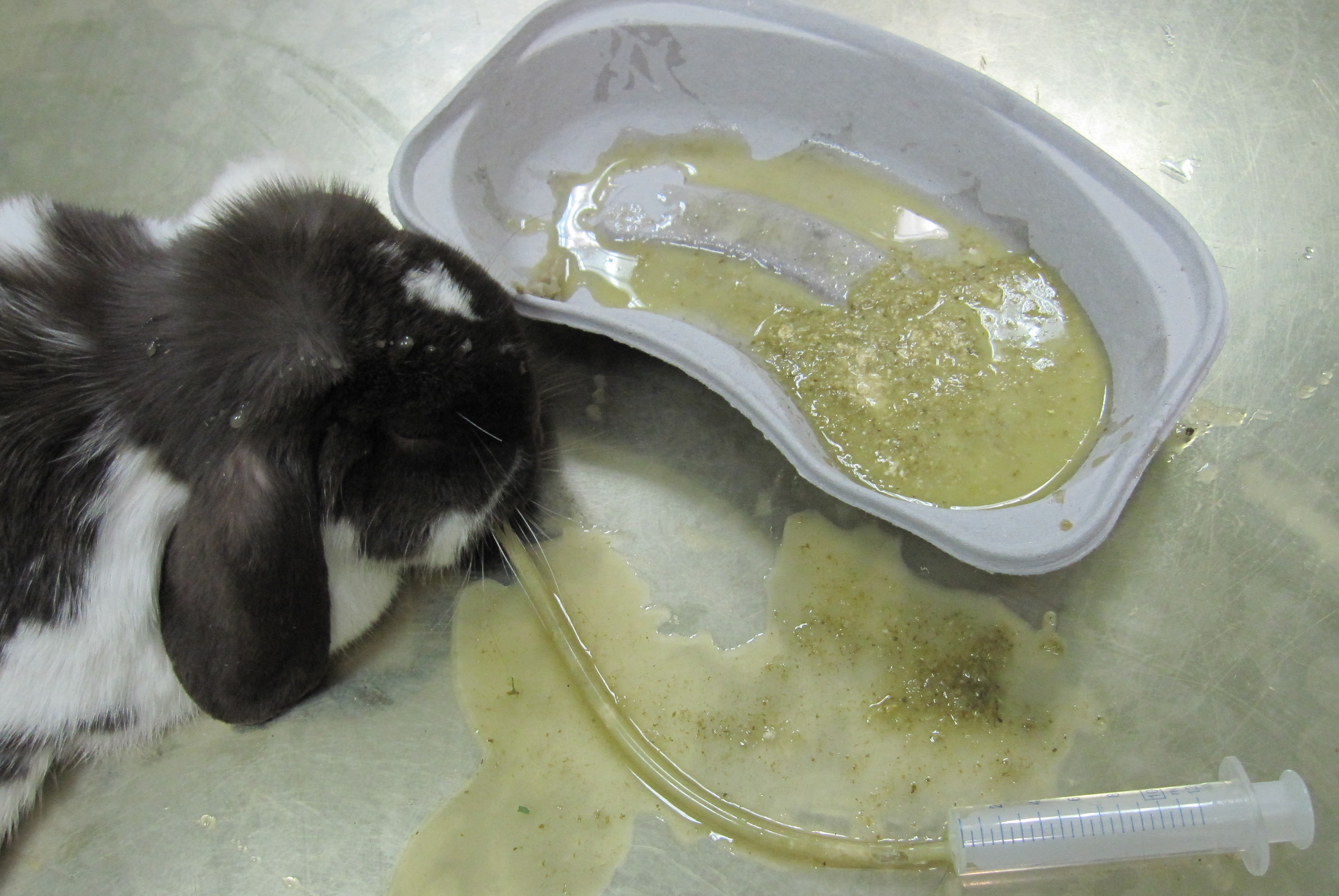 removal of gastric contents in a rabbit with gastric tympania